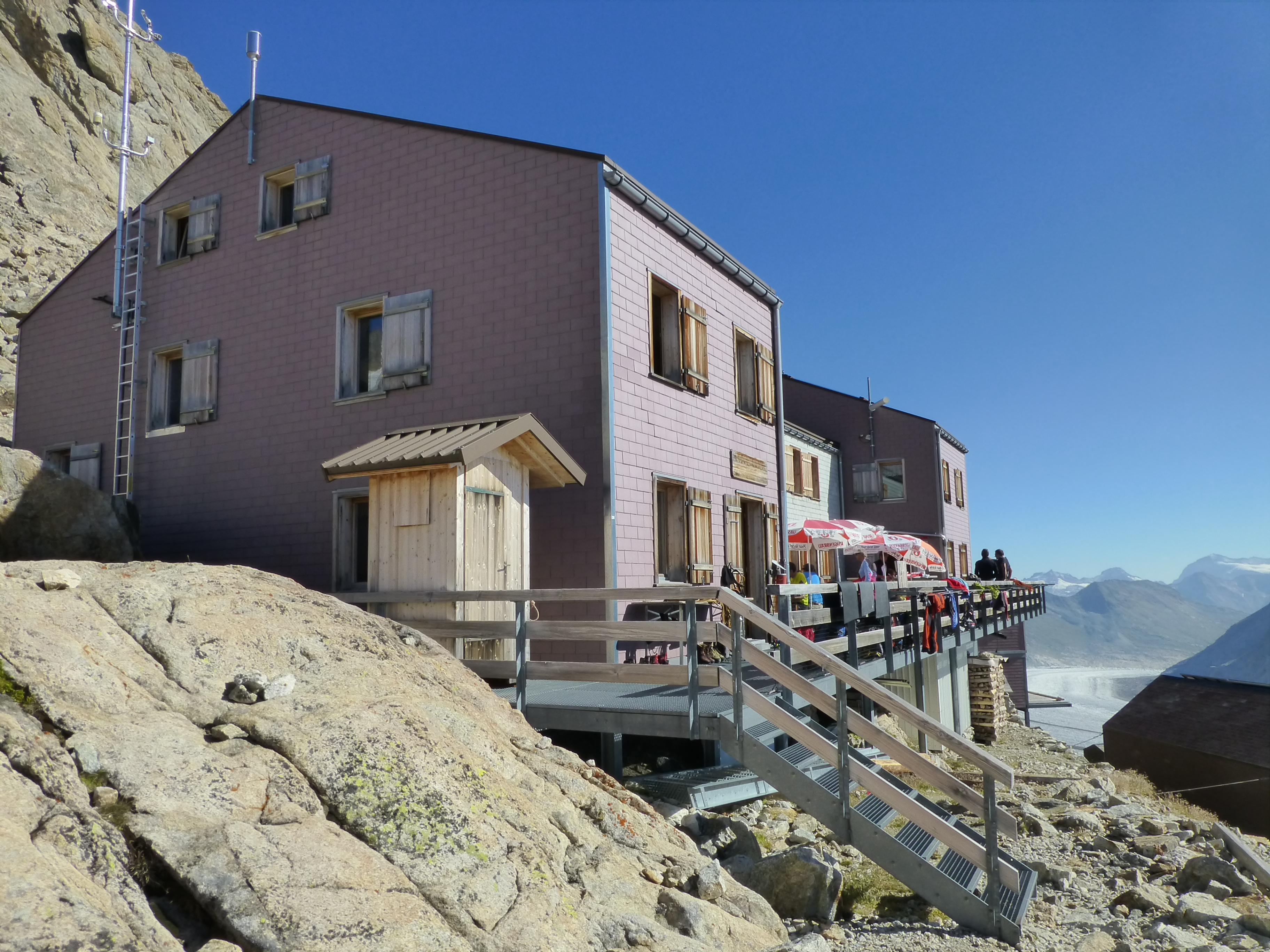 Concordia Hut, view southbound to the Aletsch Glacier (right in the back)